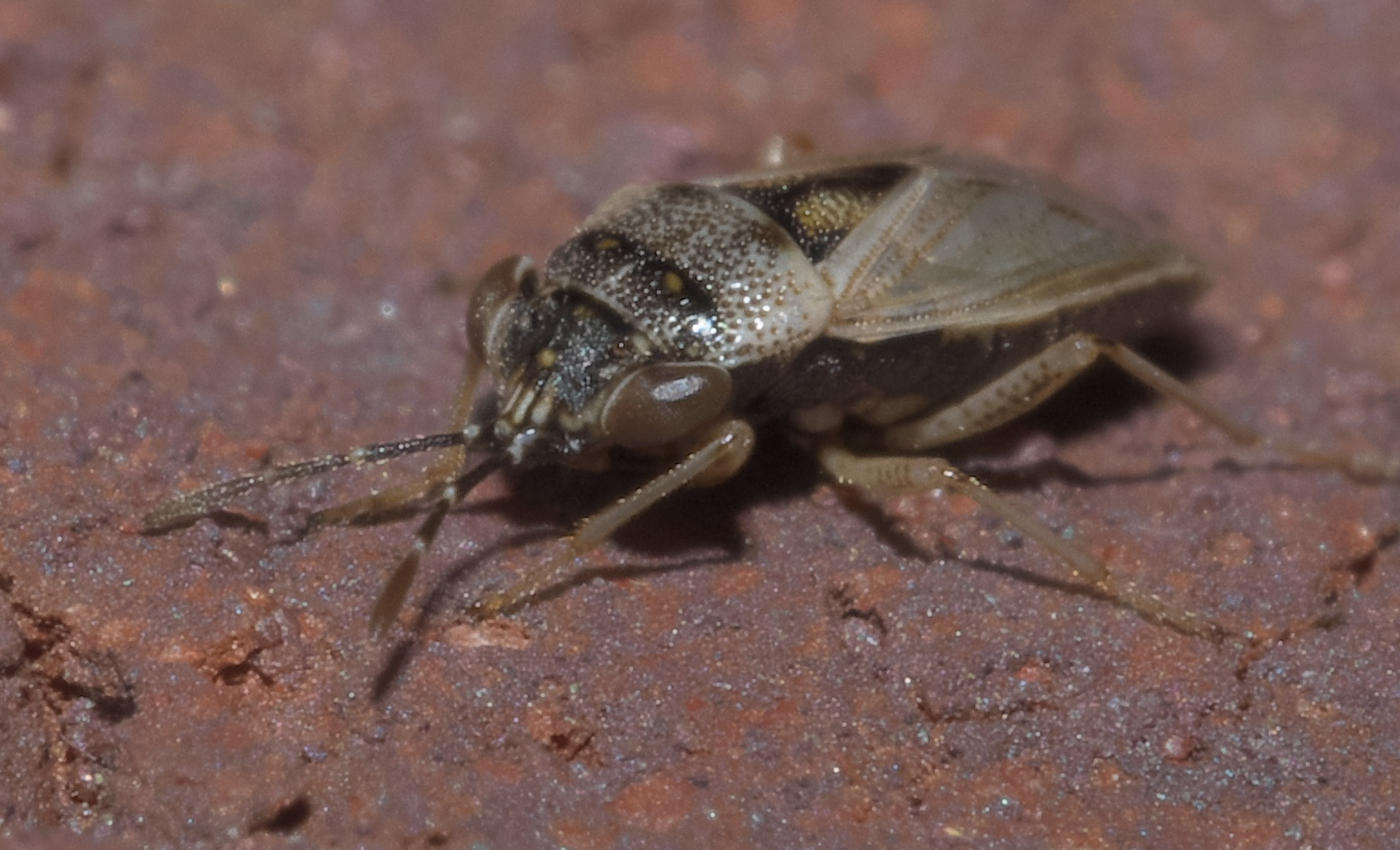 Geocoris punctipes, Genus: Big-eyed Bug, ID Confidence: 98